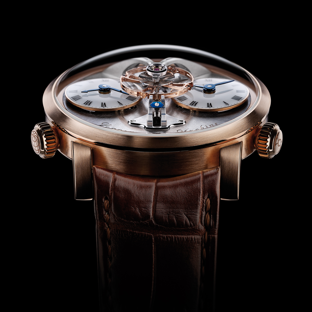 Legacy Machine No.1 (LM1) features a large elevated central balance; completely independent dual time zones; and a unique vertical power reserve indicator. For more information, please visit